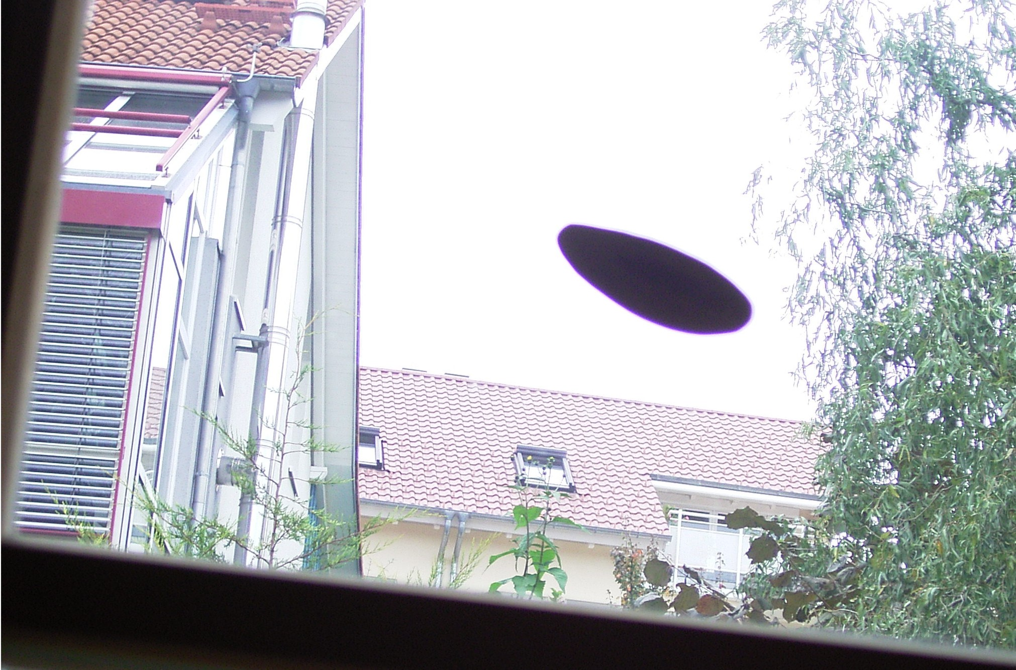 A UFO